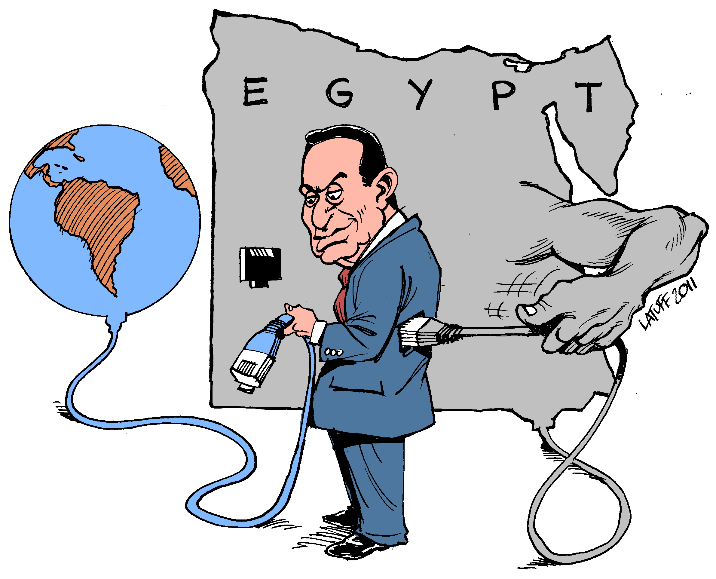 Mubarak shuts down Internet! Egypt will shut down Mubarak!